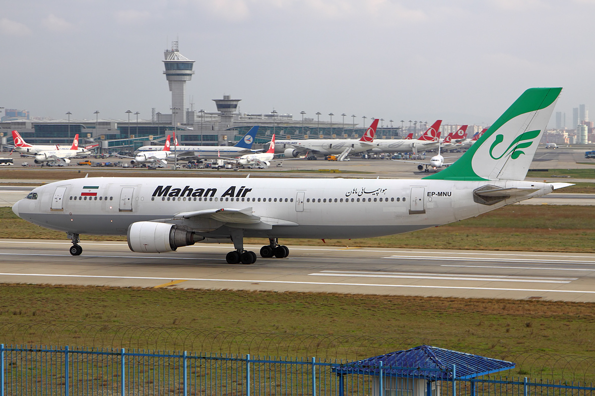 A Mahan Air Airbus A300B4-605R at Istanbul Atatürk Airport (IST / LTBA)